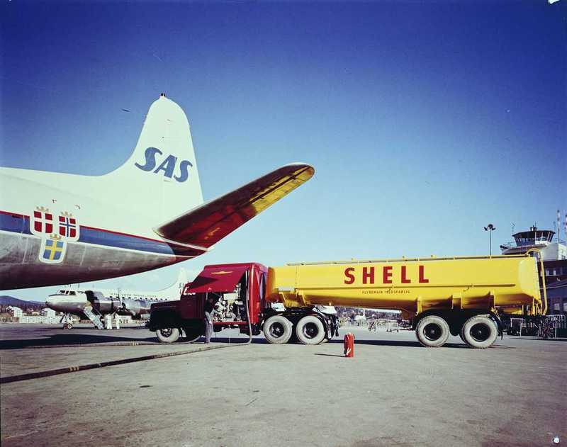 Scandinavian Airlines System (SAS) Saab 90A-2 Scania being fuelled by Shell at Oslo Airport, Fornebu